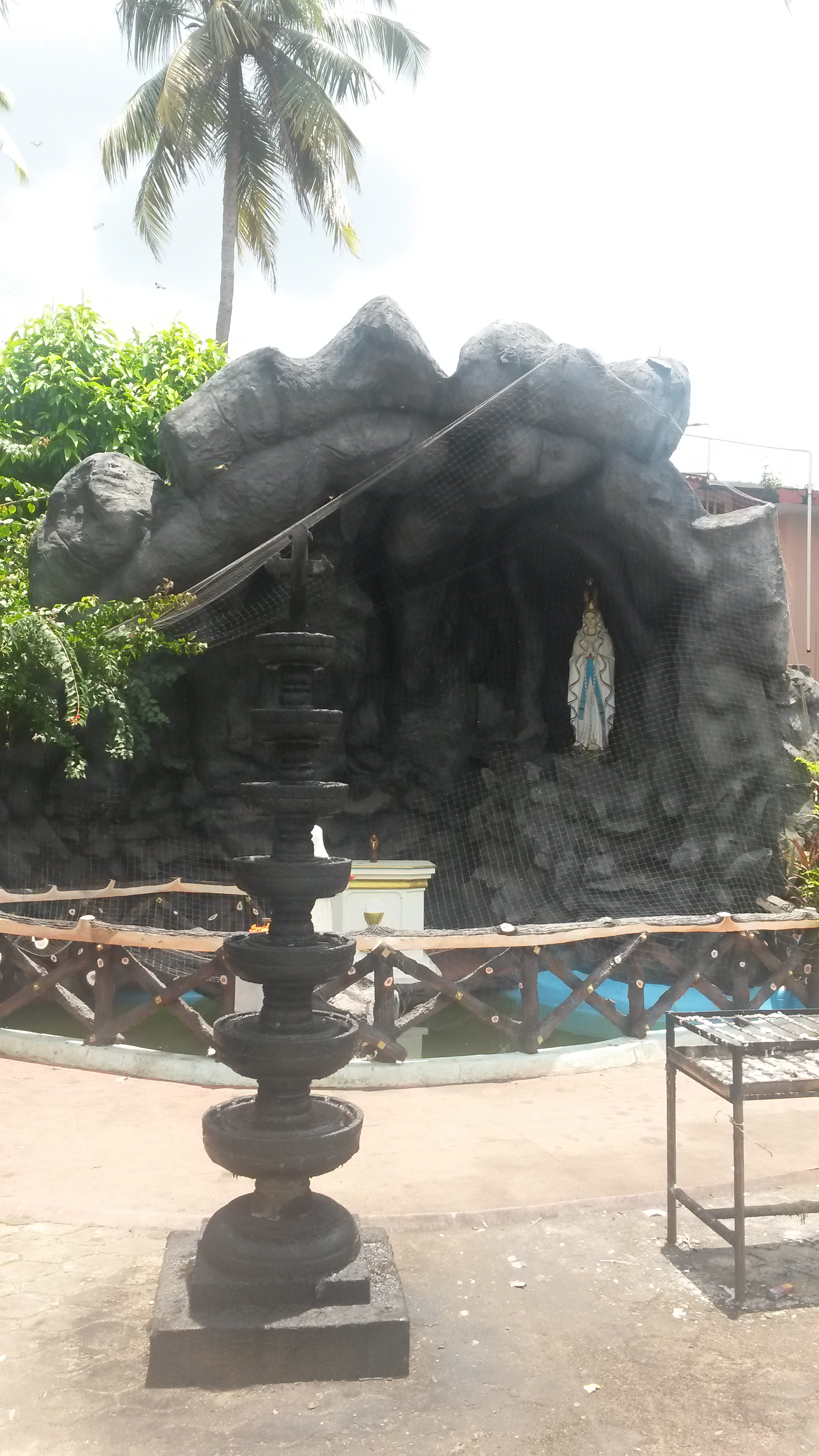 Grotto at OLPH Church, West Chalakudy